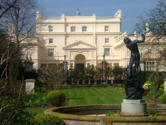 St. John's Lodge. Symmetrical four-storey Neoclassical villa with an imposing pedimented entrance and balustrades around a valley roof surmounted by a small cupola and flanked by two-storey wings, the whole covered with stucco rendering painted pale pink. In front is a freshly mown lawn surrounded by plants and shrubs. In the foreground is a raised round stone pool with a bronze of a nude man being pulled into the water by a mermaid.